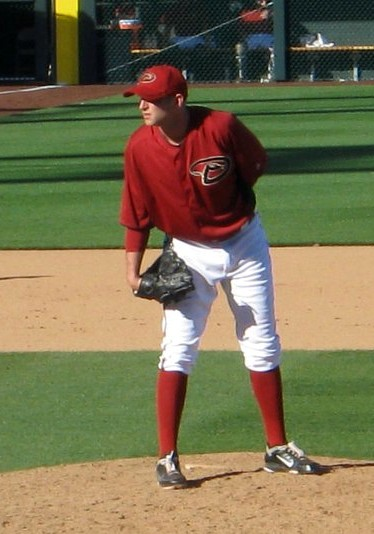 Joe Paterson pitching in Spring Training baseball game for the Arizona Diamondbacks.